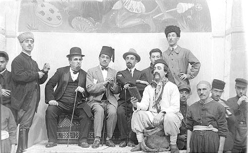 Scene from perfomance of "Meshadi Ibad" (or "If not that one, then this one") in Azerbaijan State Theatre of Opera and Ballet. Director Abbas Mirza Sharifzade.